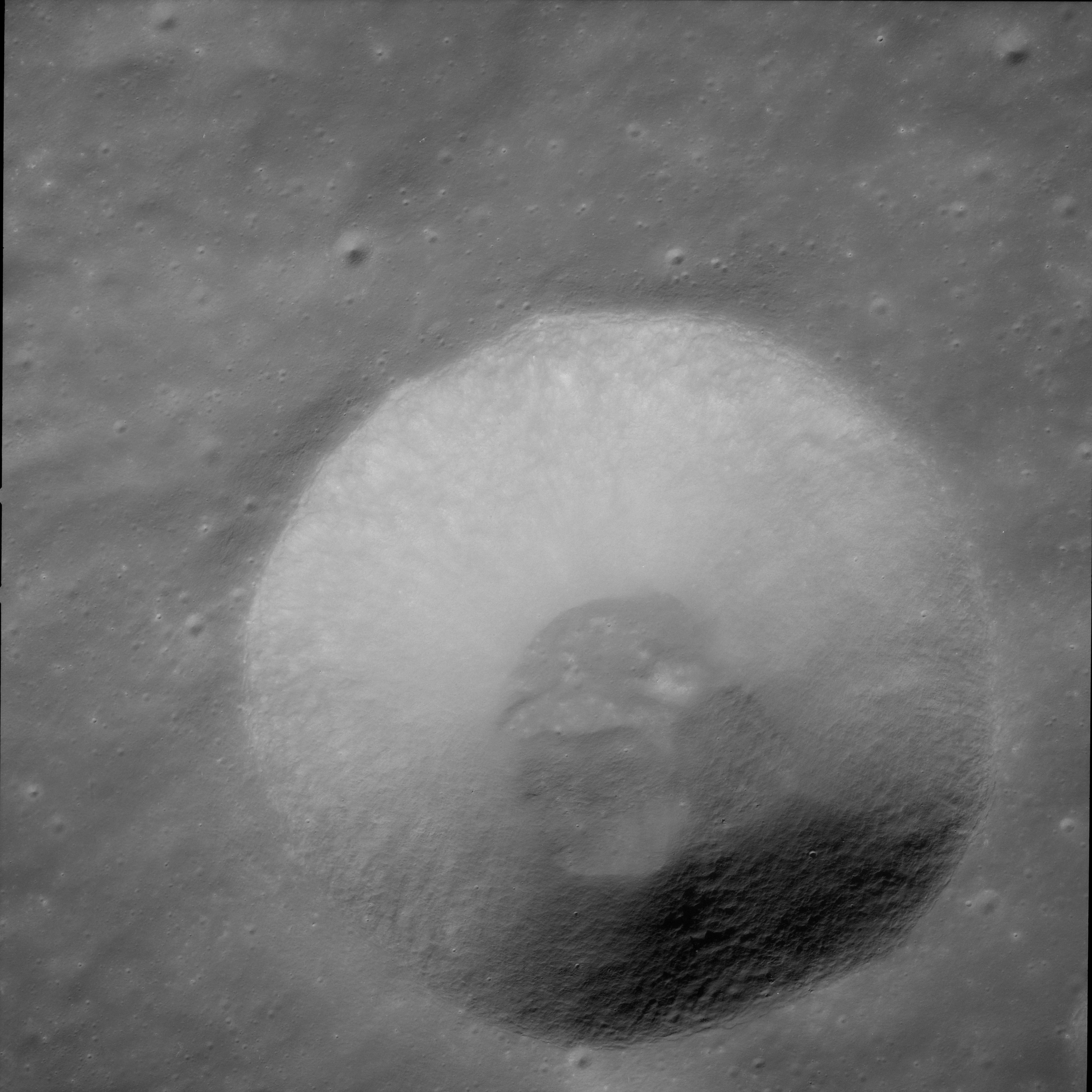 Coriolis S crater, west of Coriolis, on the far side of the moon. North is at left.